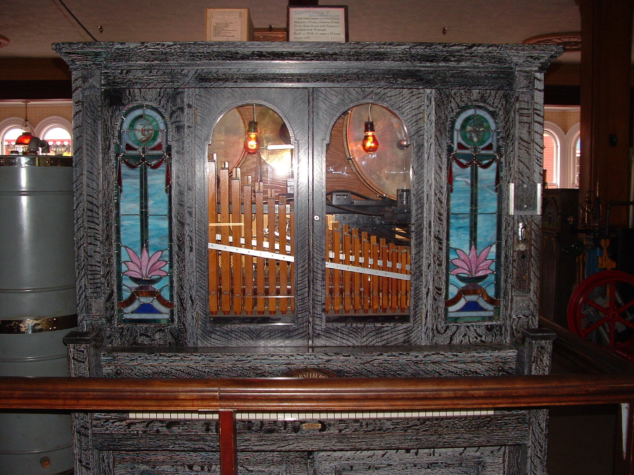 1918 Seeburg Orchestrion, on display at Clark's Trading Post, Lincoln, New Hampshire. J. P. Seeburg Piano Co., Style "G"—Art Style Orchestrion (introduced in 1911)Includes following instruments: piano, two ranks of organ pipes (flute and violin), mandolin, snare drum, bass drum, timpani, cymbal, and triangle. Torch-style art glass. Coin-operated, electric.[1][2][3] References ↑ Orchestrion by the Seeburg Company. Nationa Music Museum. ↑ Tim Trager. The Seeburg G, America's Definitive Orchestrion. Mechanical Music Digest. photograph of Seeburg's pamphlet ↑ s.kOtsun. Orchestrion. quotation from Seeburg's pamphlet